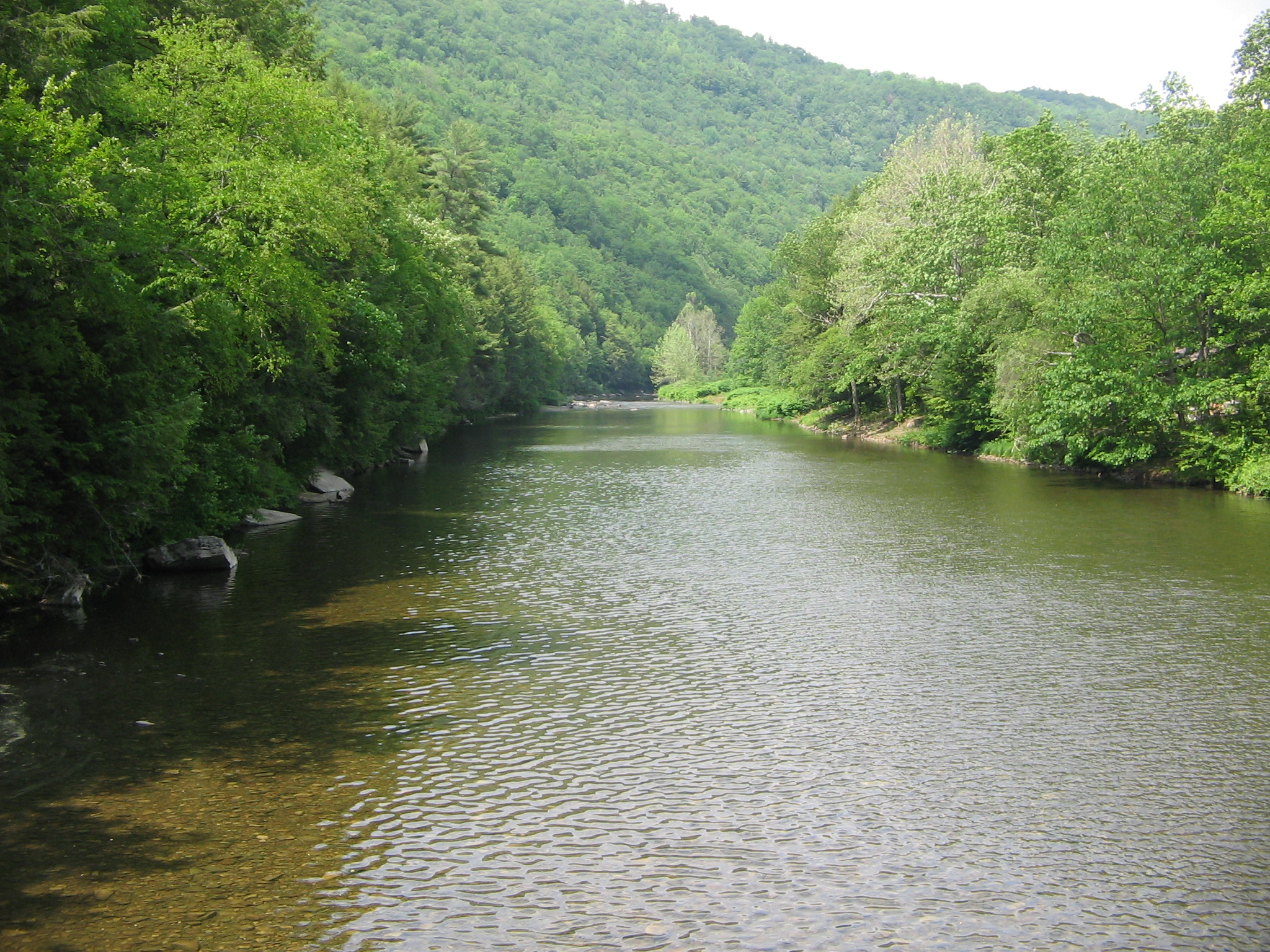 Loyalsock Creek. looking north from Hillsgrove Covered Bridge in Hillsgrove Township, Sullivan County, Pennsylvania, United States.